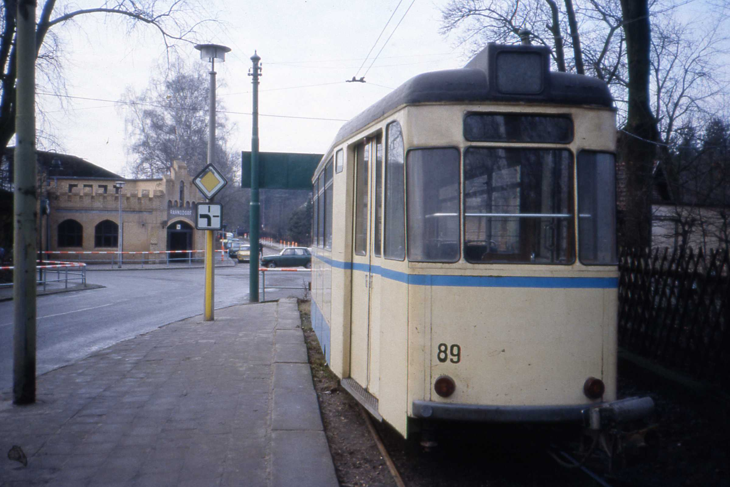 A spare trailer car, no 89 of the Woltersdorf Straßenbahn waits at the end of the stub terminus at the castellated Rahnsdorf S-Bahn station, east of Berlin. 89 is a 1960 Gotha B59 Beiwagen (trailer car) which was acquired along with3 others and three motor cars from Schwerin in 1977. More pictures of the Woltersdorf system can be seen here